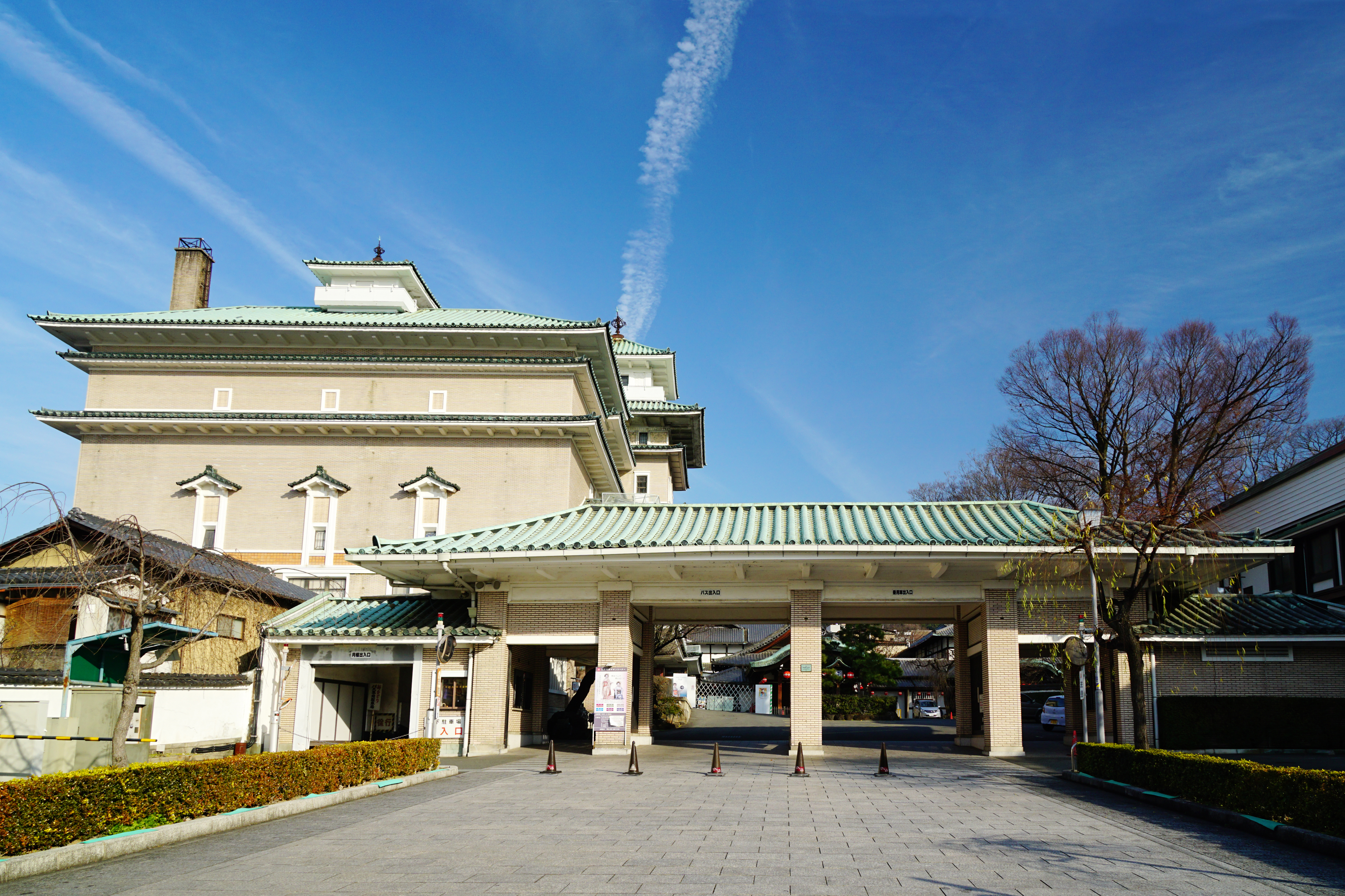 Gion_Kobu_Kaburenjo in Kyoto, Kyoto prefecture, Japan